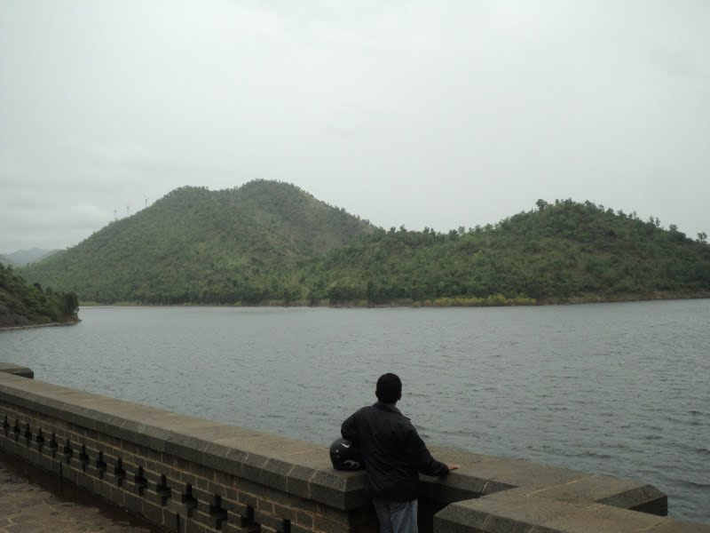 First view from the bund.